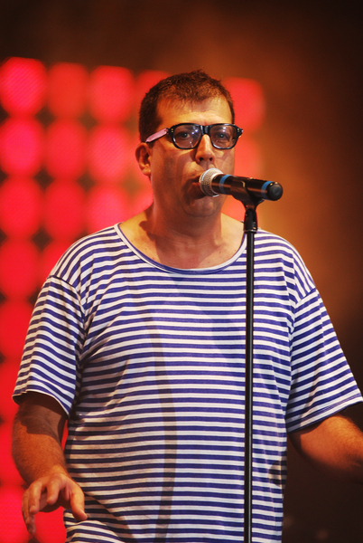 Adrian Pleşca (from Timpuri Noi band), at Green Day Concert in Revolution Square, Bucharest